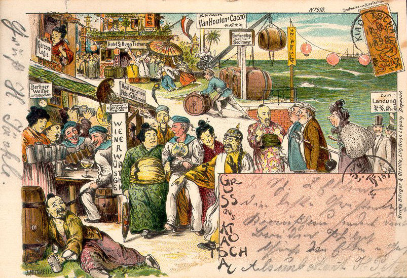 historic postcard of Qingdao, China (around 1900)